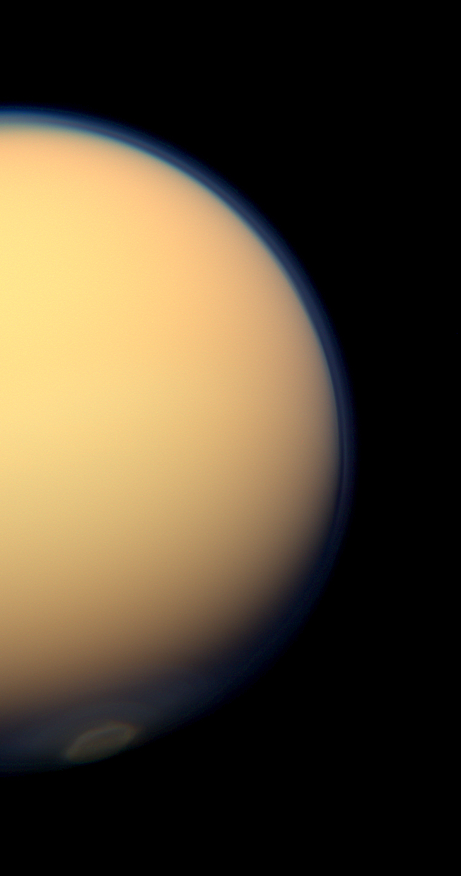 The recently formed south polar vortex stands out in the color-swaddled atmosphere of Saturn's largest moon, Titan, in this natural color view from NASA's Cassini spacecraft. The south polar vortex can be seen approximately centered over the south pole in the lower left of the image. Images taken using red, green and blue spectral filters were combined to create this natural color view. The images were acquired with the Cassini spacecraft wide-angle camera on July 25, 2012, at a distance of approximately 64,000 miles (103,000 kilometers) from Titan. Image scale is 4 miles (6 kilometers) per pixel. The Cassini-Huygens mission is a cooperative project of NASA, the European Space Agency and the Italian Space Agency. The Jet Propulsion Laboratory, a division of the California Institute of Technology in Pasadena, manages the mission for NASA's Science Mission Directorate, Washington, D.C. The Cassini orbiter and its two onboard cameras were designed, developed and assembled at JPL. The imaging operations center is based at the Space Science Institute in Boulder, Colo.